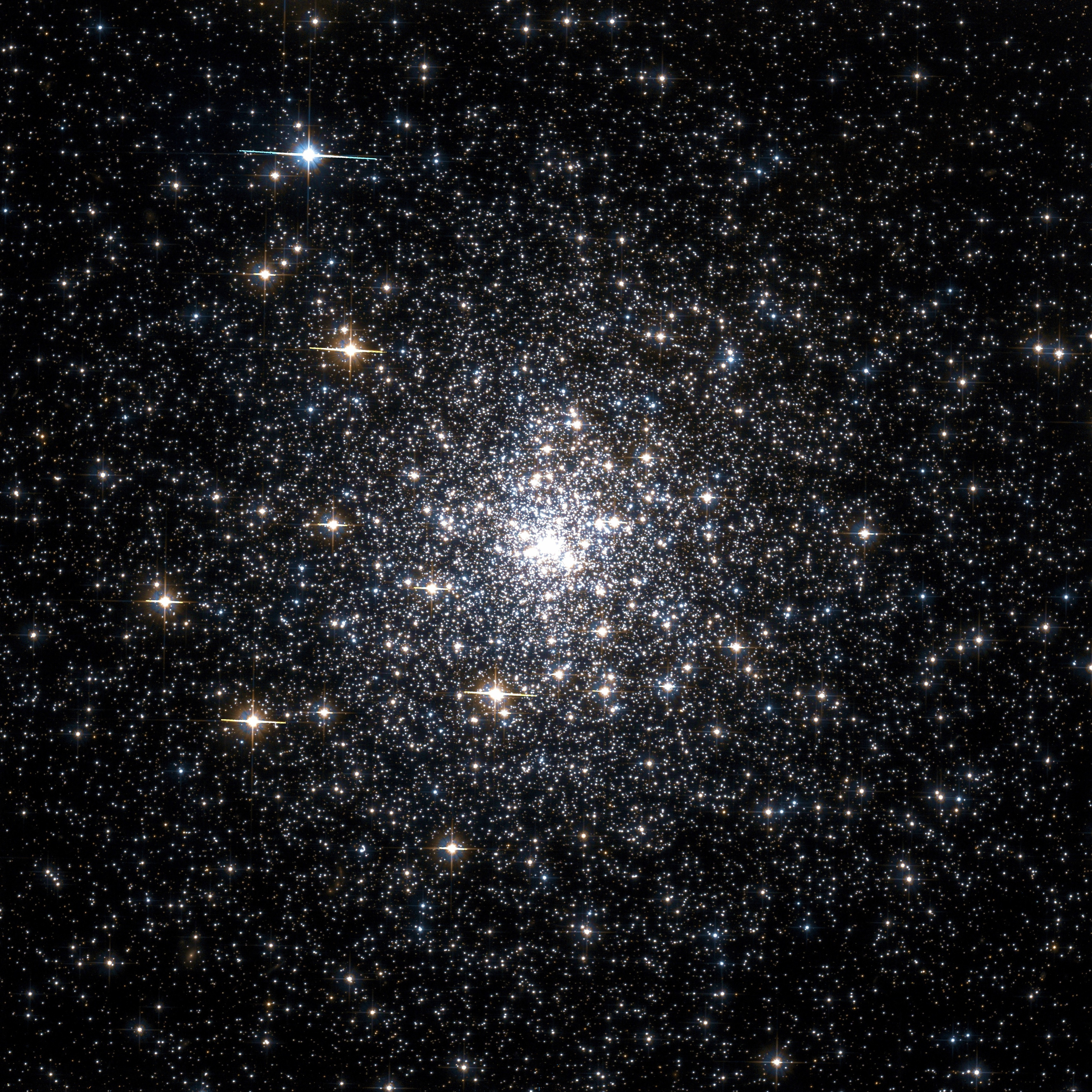 Messier 70 globular cluster by Hubble Space Telescope; 3.32′ view